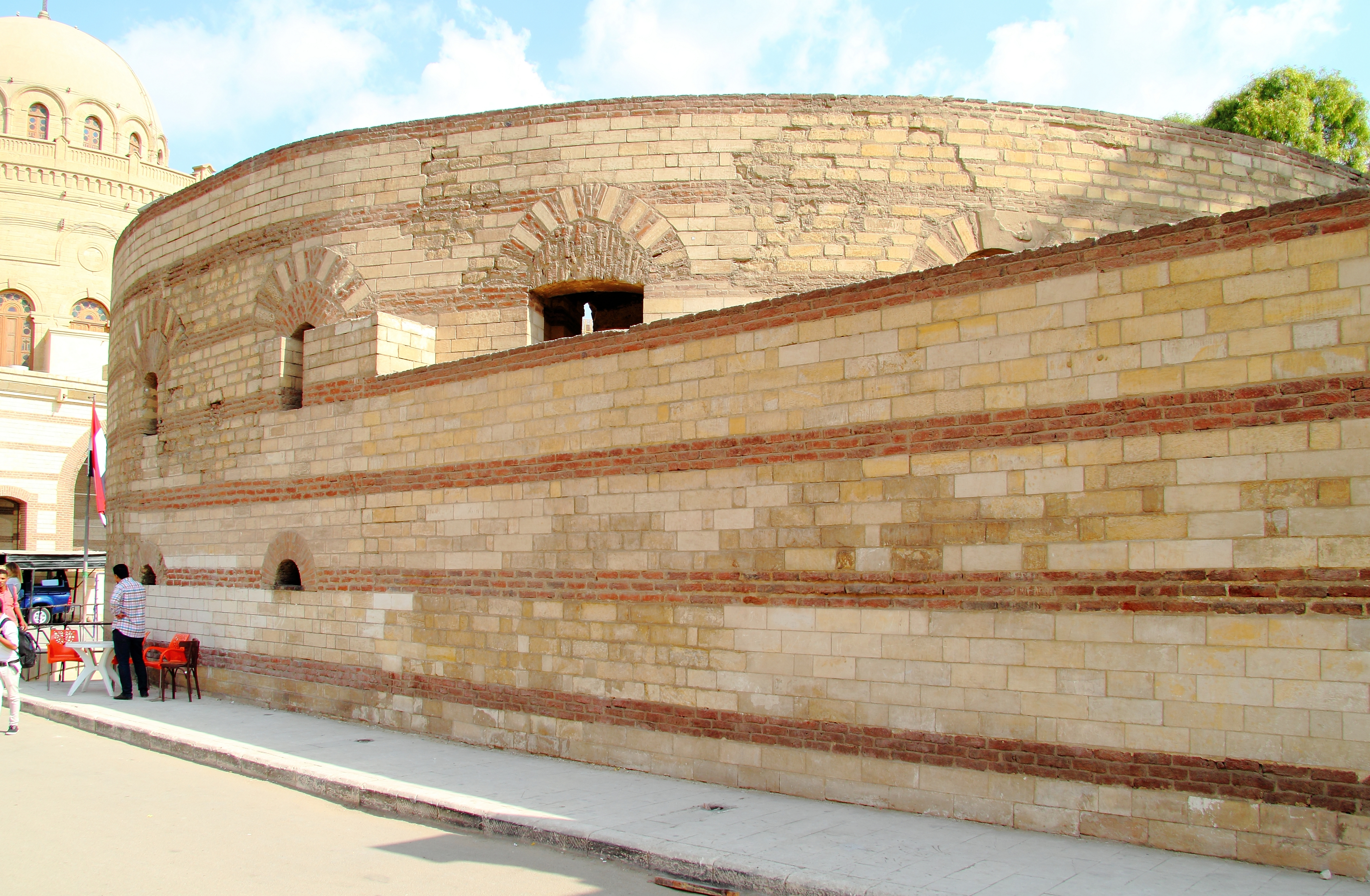 Old Cairo: Roman wall of Babylon Fortress in Egypt